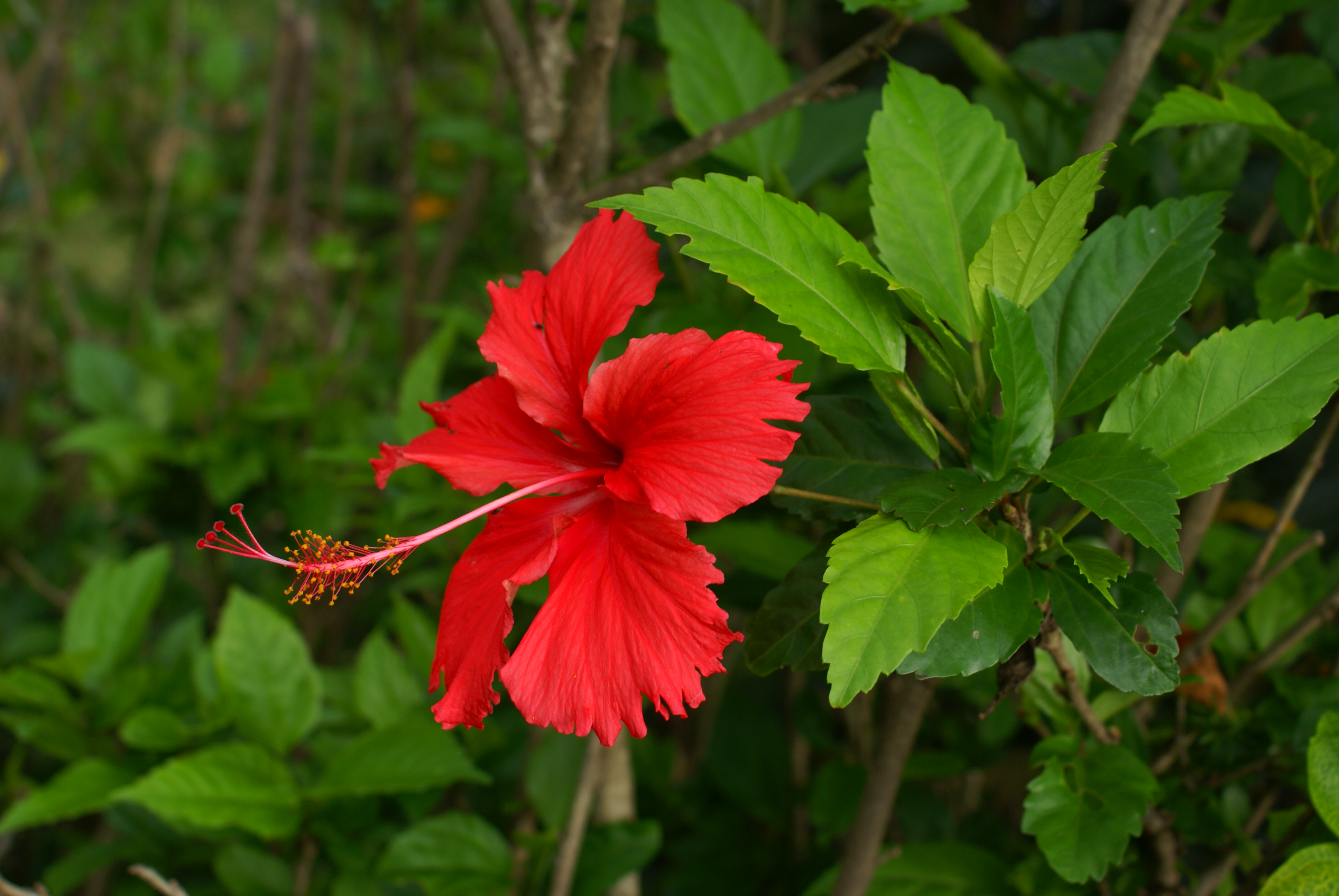 Hibiscus flower Hibiscus rosa-sinensis, in my garden (Réunion island)